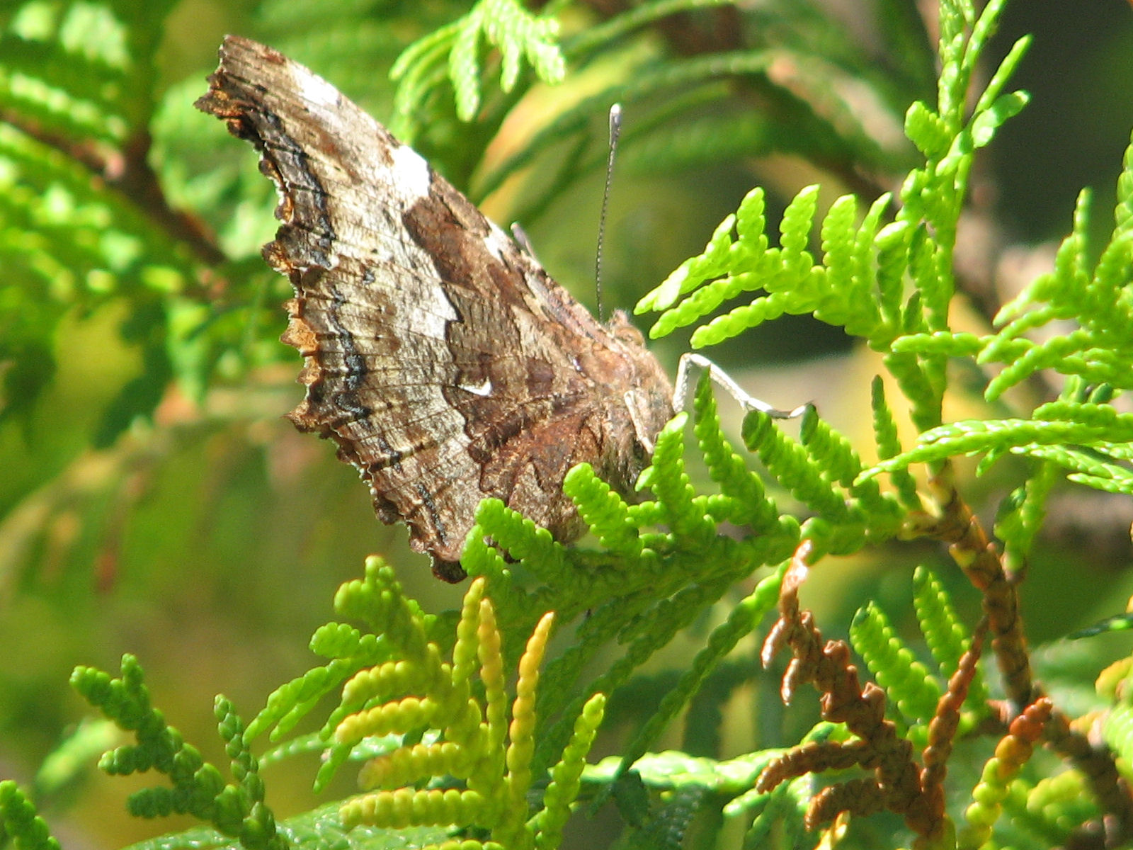 Compton Tortoiseshell (Nymphalis vaualbum) taken in Lady Evelyn-Smoothwater Provincial Park, Temagami, Ontario